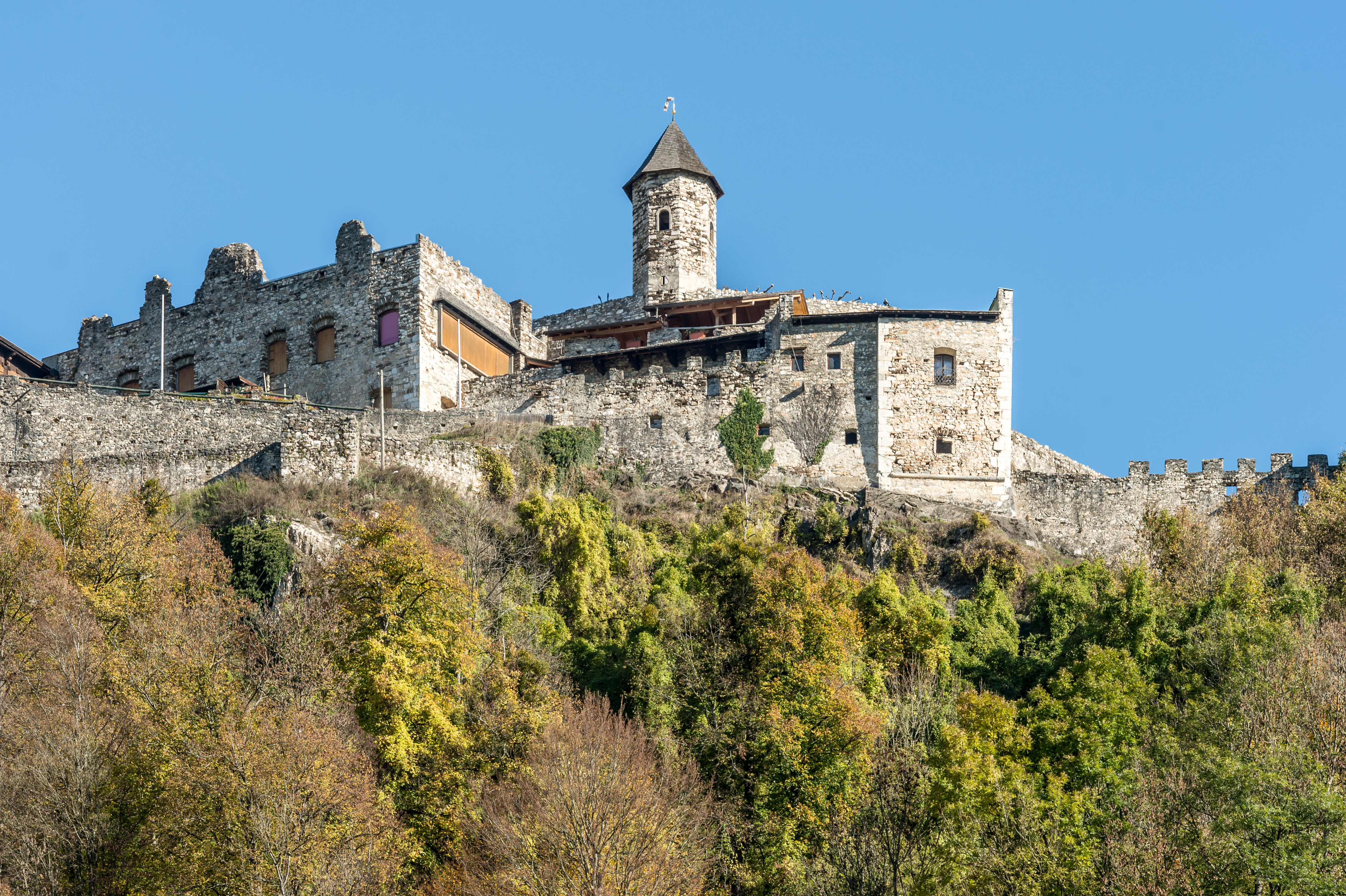 Castle ruin on Schlossbergweg #30 in Landskron, municipality Villach, Carinthia, Austria, EU